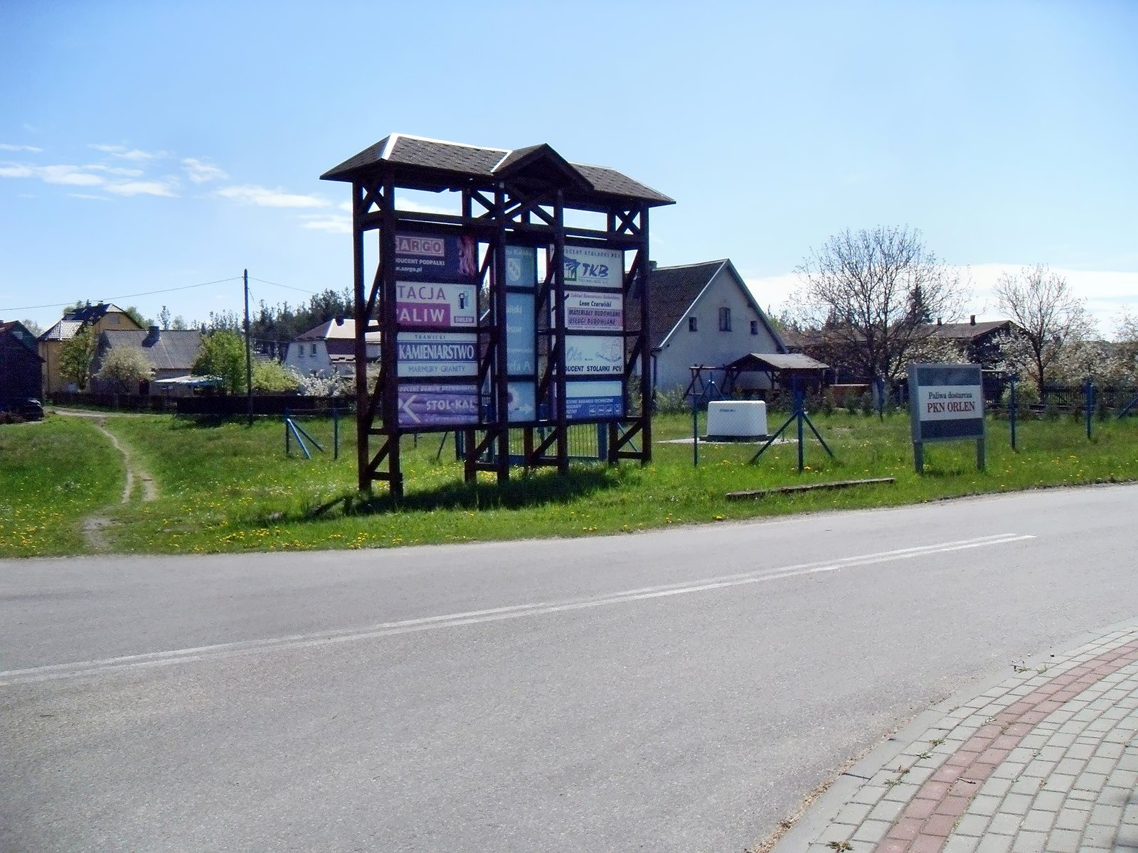 Table KOP-u - Kaliski Area Entrepreneurship